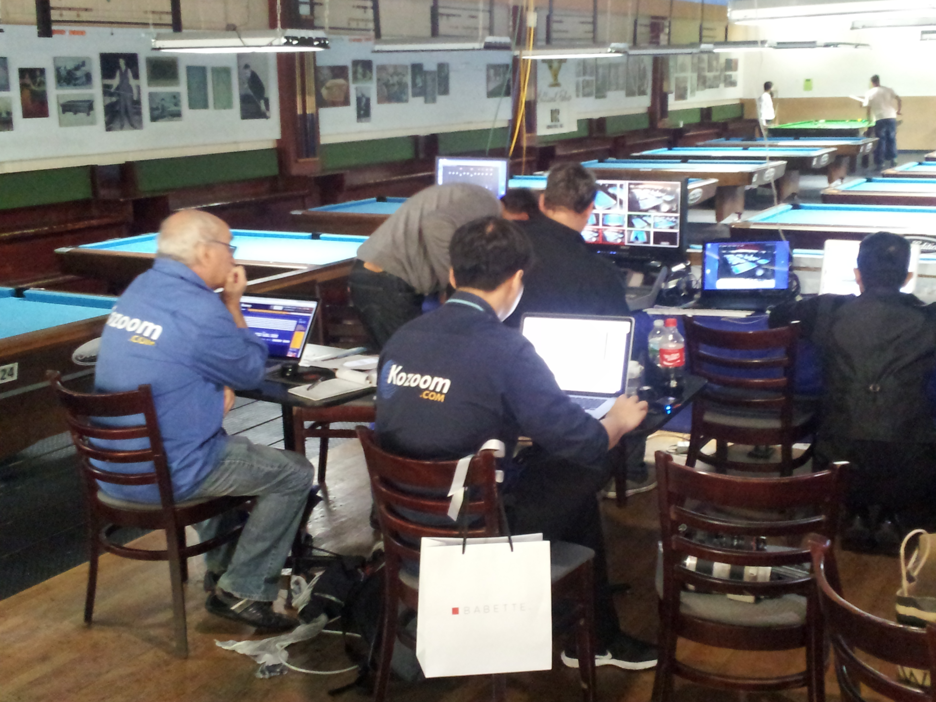 Verhoeven Open 2016. 3-Cushion Tournament at the Carom Café in New York City.